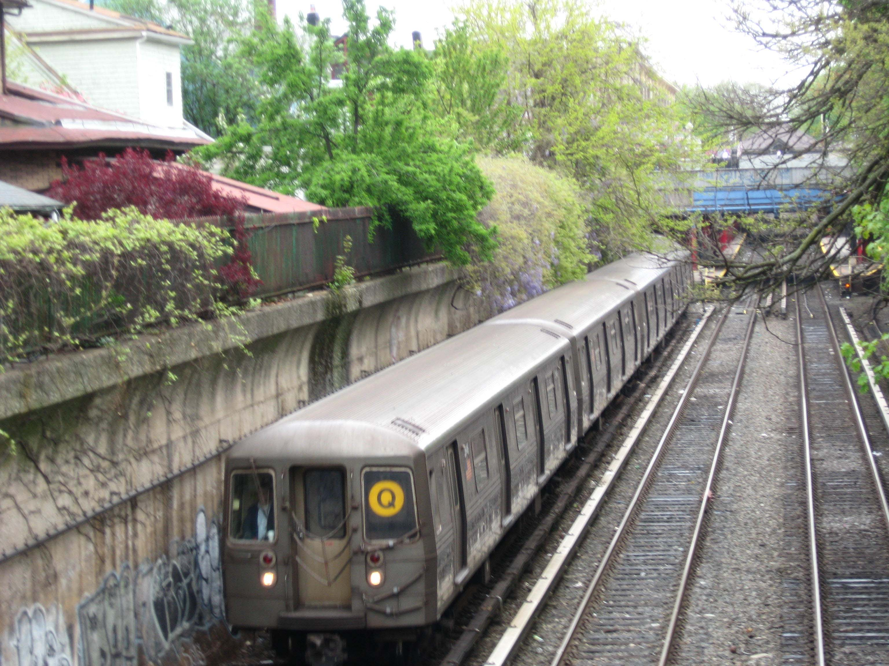 Looking south at a northbound Q leaving Newkirk Avenue (BMT Brighton Line) and approaching Ditmas Avenue overpass on a cloudy springtime afternoon.